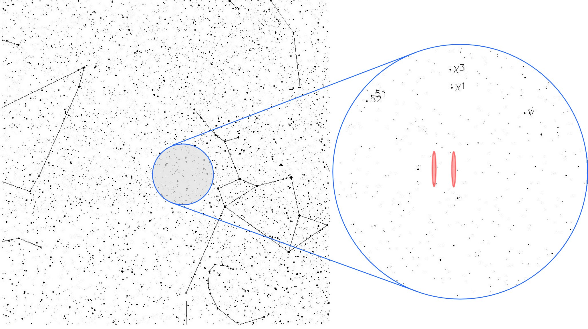 Location of the Wow! signal on a star map. I made the background star fields using yoursky, which states that "Images produced by Your Sky are in the public domain and may be used in any manner without permission, restriction, attribution, or compensation. Back links to Your Sky are welcome." The rest of the layout and drawing is my own work. See File:Wow signal location.svg for svg source, and this file for the file "foo.jpg" referred to in the svg file.